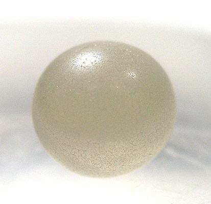 Diamond Locality: Brazil (Locality at ) This is a "rare brazilian ballas" according to the diamond trade - this is a fascinating SPHERICAL diamond with no crystal form, measuring 6mm in diameter and with a smooth surface like a pearl. It is entirely translucent. Ballas are almost impossible to cut because even other diamonds have serious trouble cutting them. (3.75 carats) This Photo was Photo of the Day - 6th Jun 2006